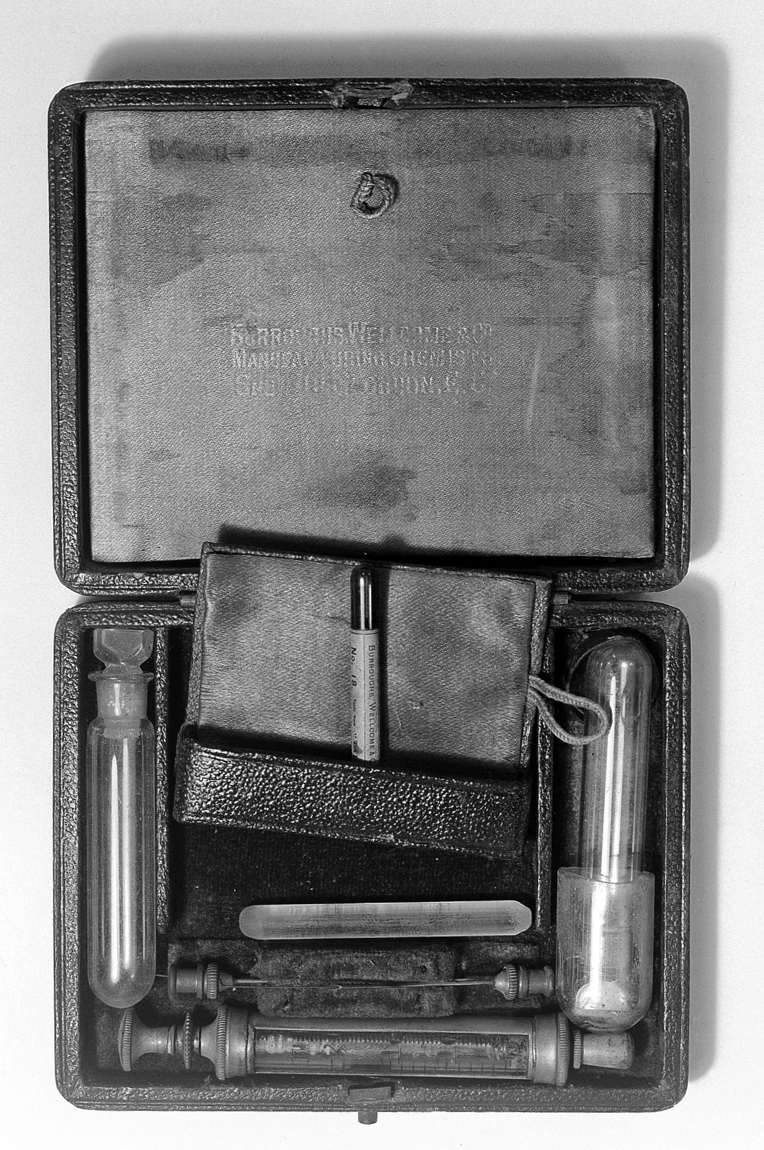 Pocket case with small mortar and pestle, to be used with Tabloid doses. Wellcome Images Keywords: syringe: hypodermic